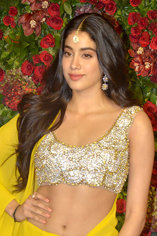 Janhvi Kapoor graces their Mumbai reception